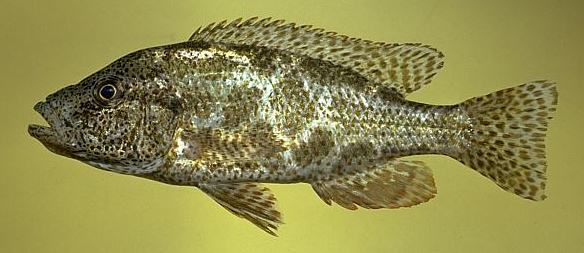 Subadult live individual freshly collected from Lake Malawi and photographed in a photographic aquarium